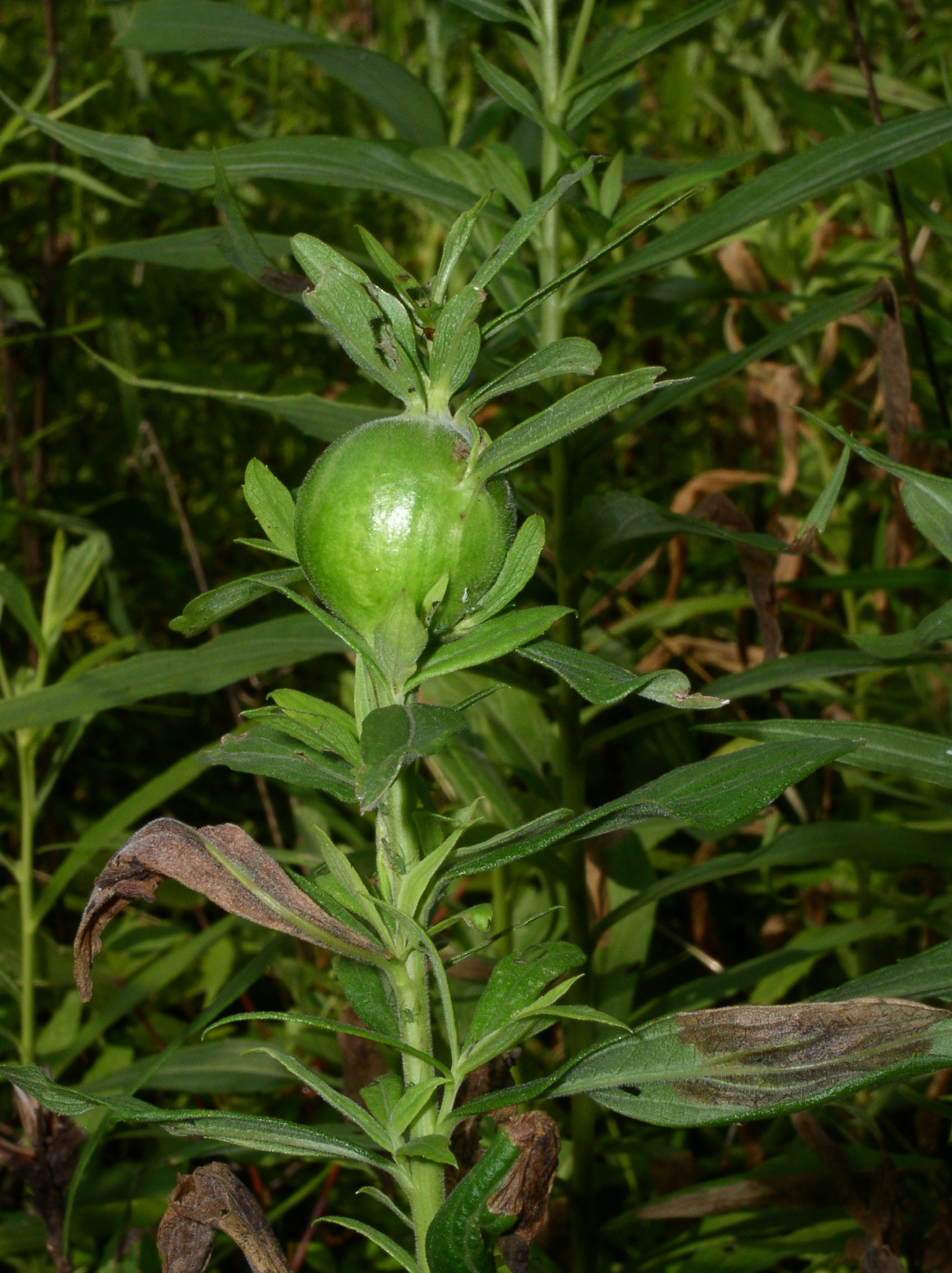 Round gall on stem of goldenrod (Solidago) made by the fly Eurosta solidaginis. Peace Valley Nature Center, Bucks County, Pennsylvania, USA.